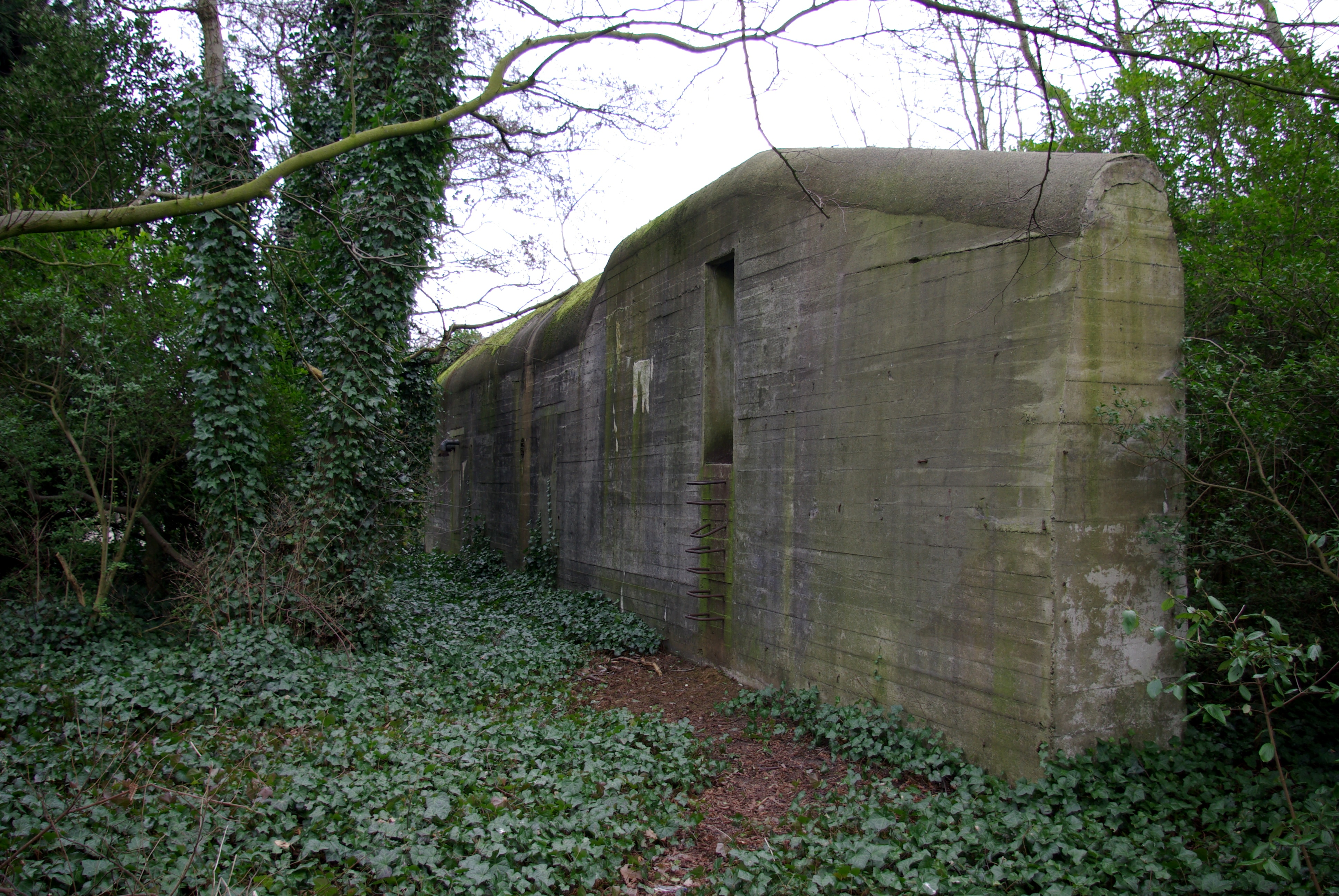 Atlantic Wall IJmuiden, Driehuis, bunker, type R 622